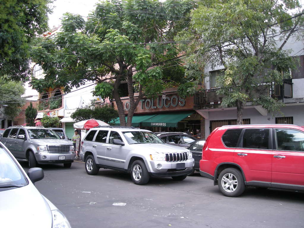 View of Los Tolucos restaurant with lots of cars in front. In Colonia Algarín, Mexico City